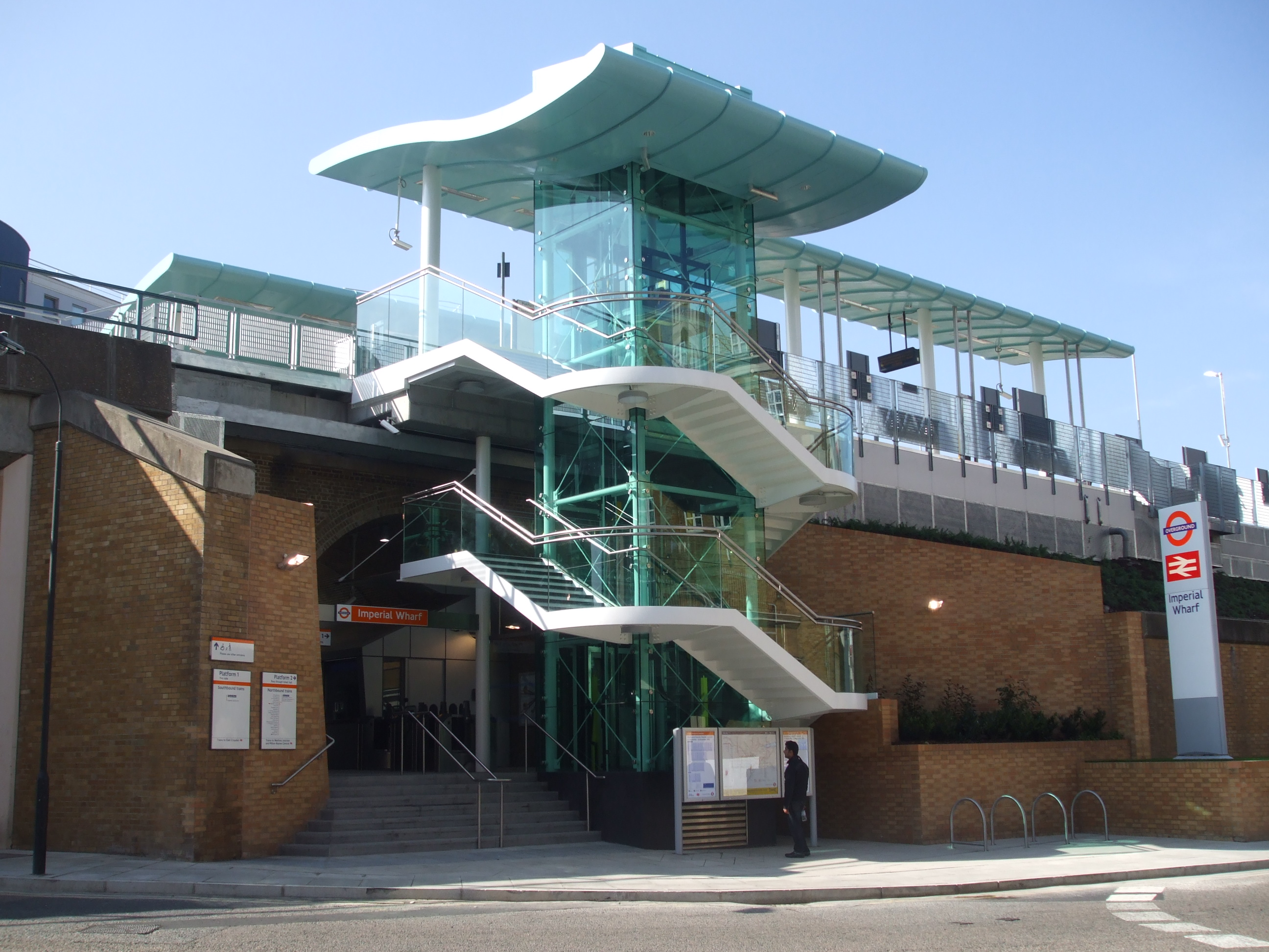 Imperial Wharf station eastern (southbound side) entrance, on the day of opening.